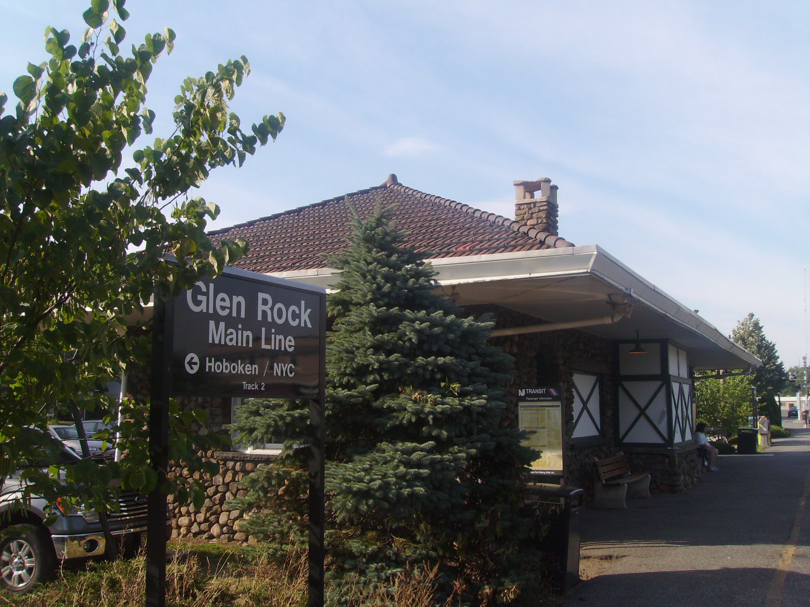 Glen Rock's Main Line station on New Jersey Transit's Main Line. The 1914 station depot is visible in the foreground.